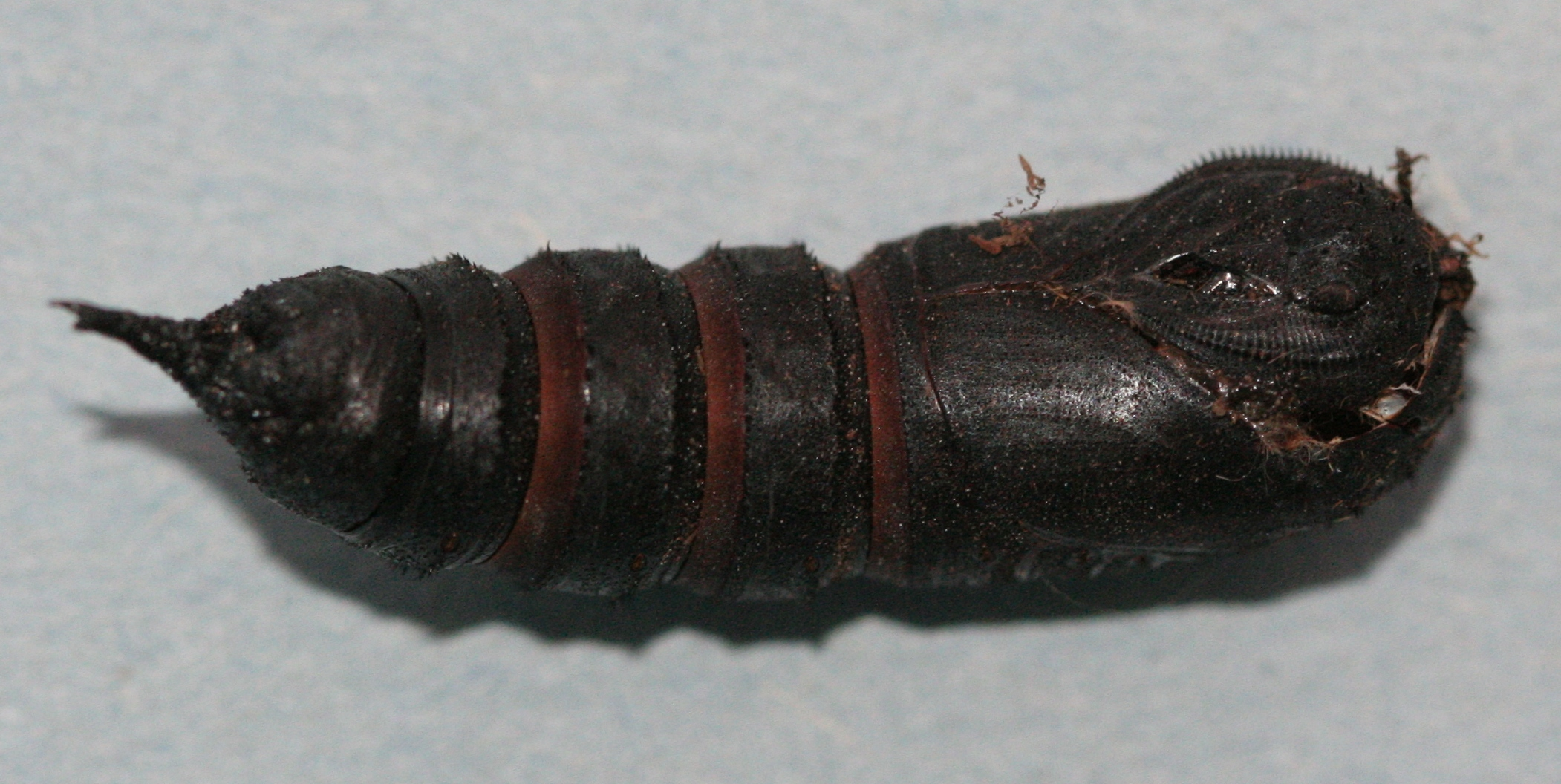 Honey Locust Moth chrysalis (Sphingicampa bicolor)